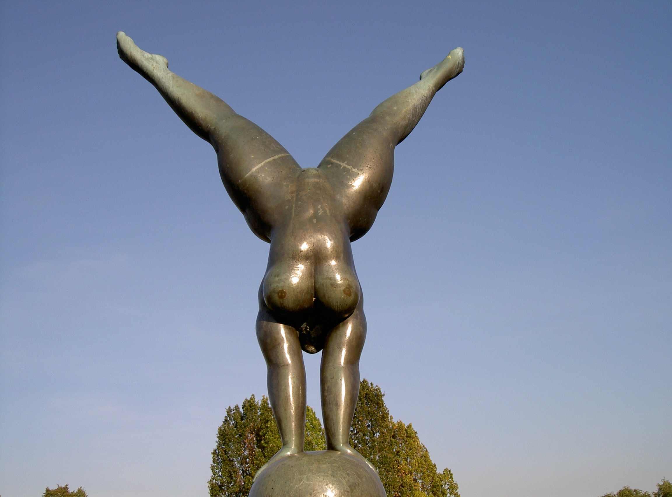 Olympia Triumphans by Martin Mayer; Olympiapark in Munich, Bavaria